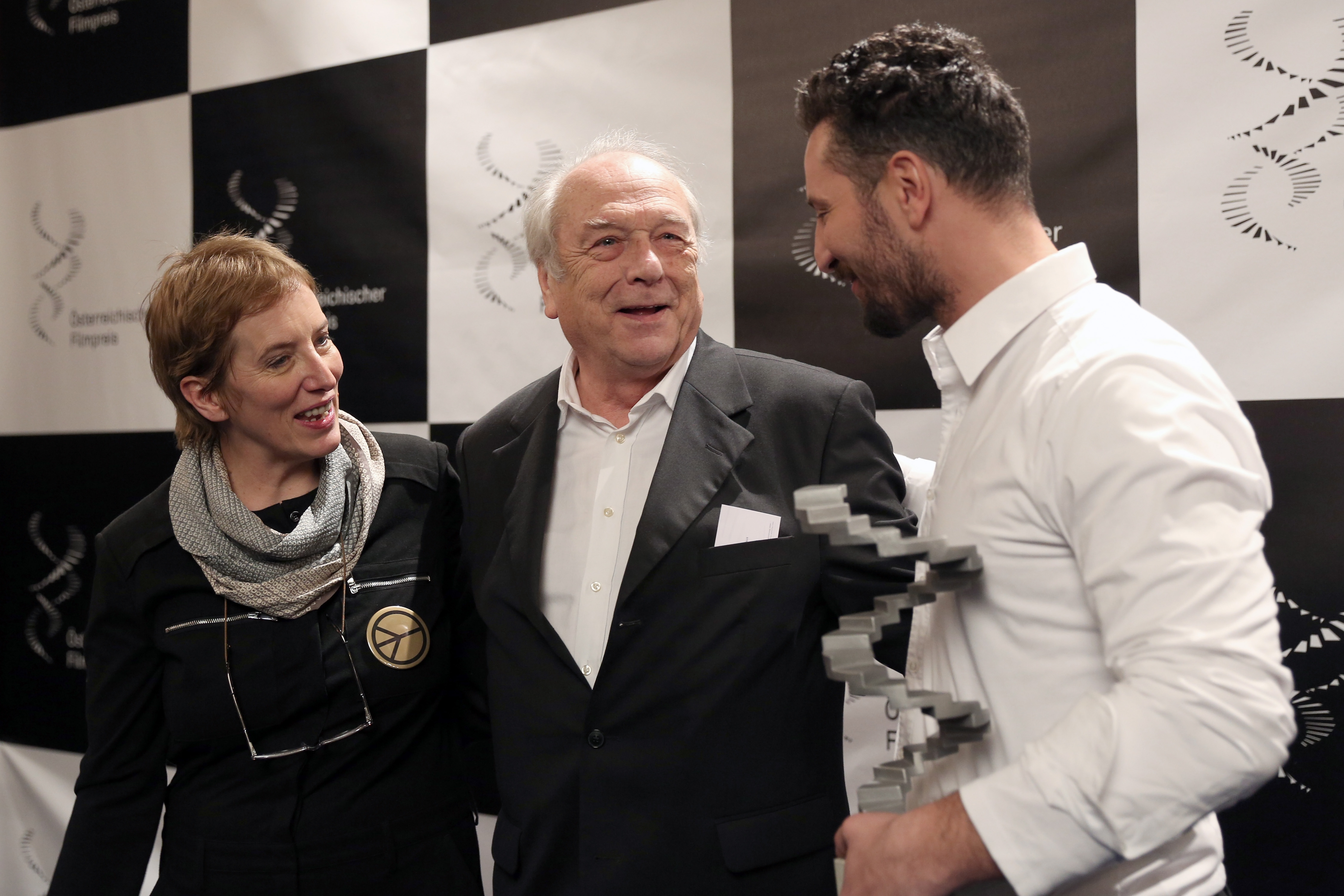 Marlene Ropac, Veit Heiduschka and Murathan Muslu (best male actor in Risse im Beton) at the Austrian Film Awards 2015 at Rathaus, Vienna,Austria.